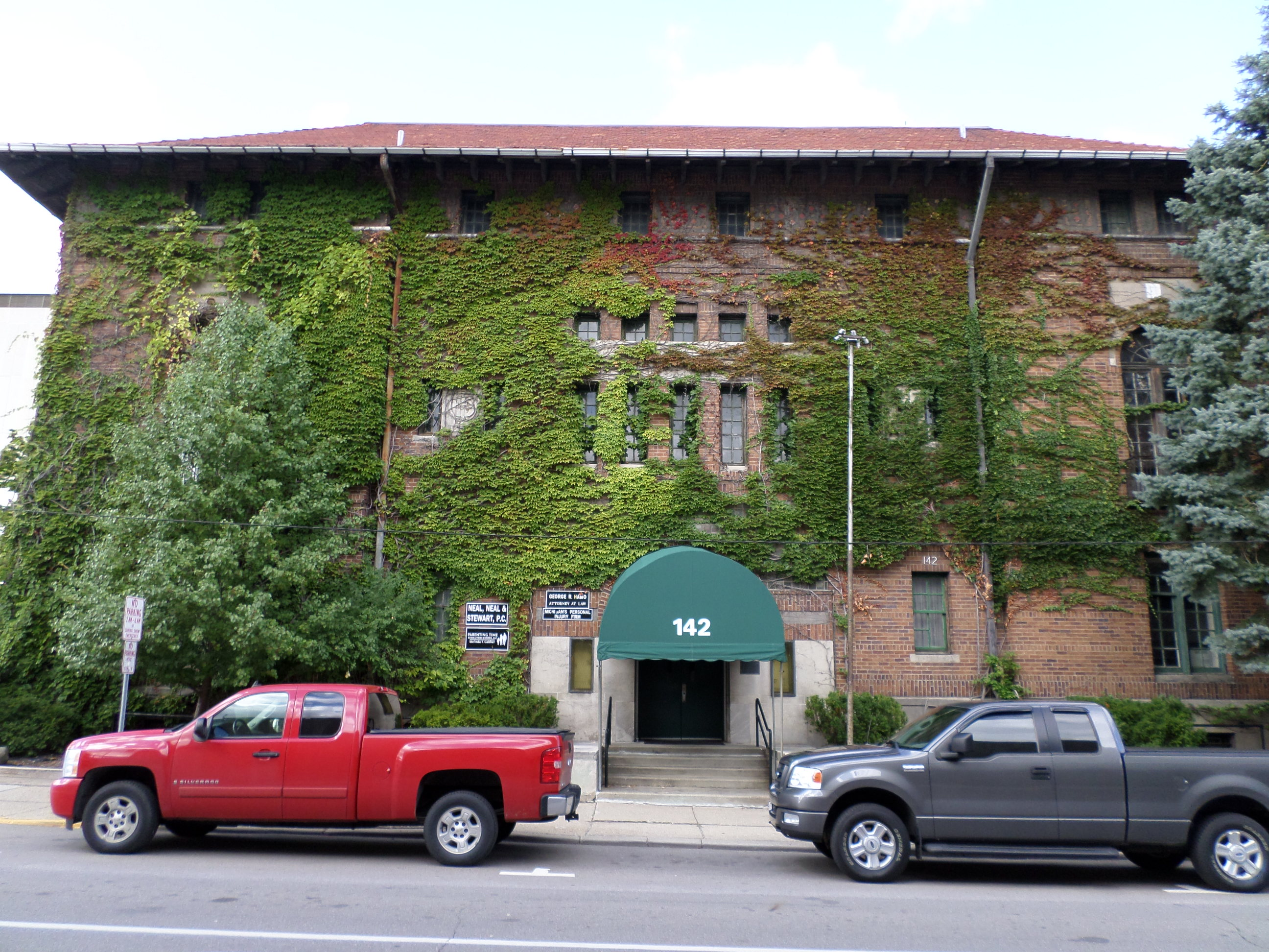 The Elks Lodge Building, located at 142 W. 2nd St, Flint, MI.